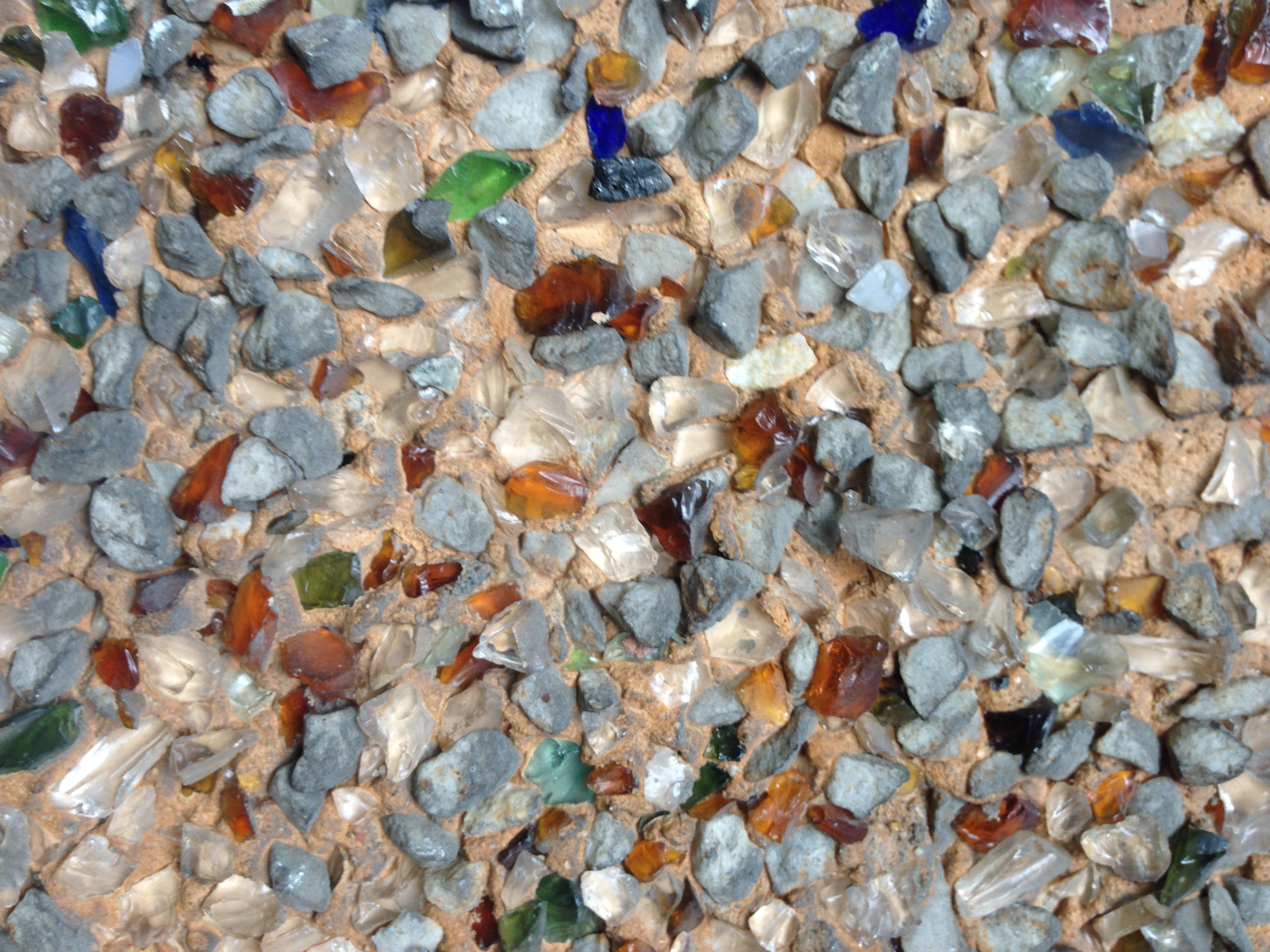 Rock dash stucco - detail showing chips of quartz, stone, and coloured glass. Chips measure approximately 3-6 mm (1/8" - 1/4").